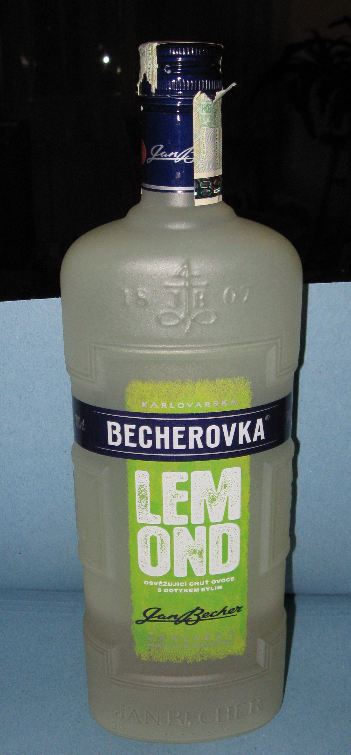 Lemond (Becherovka) front side.